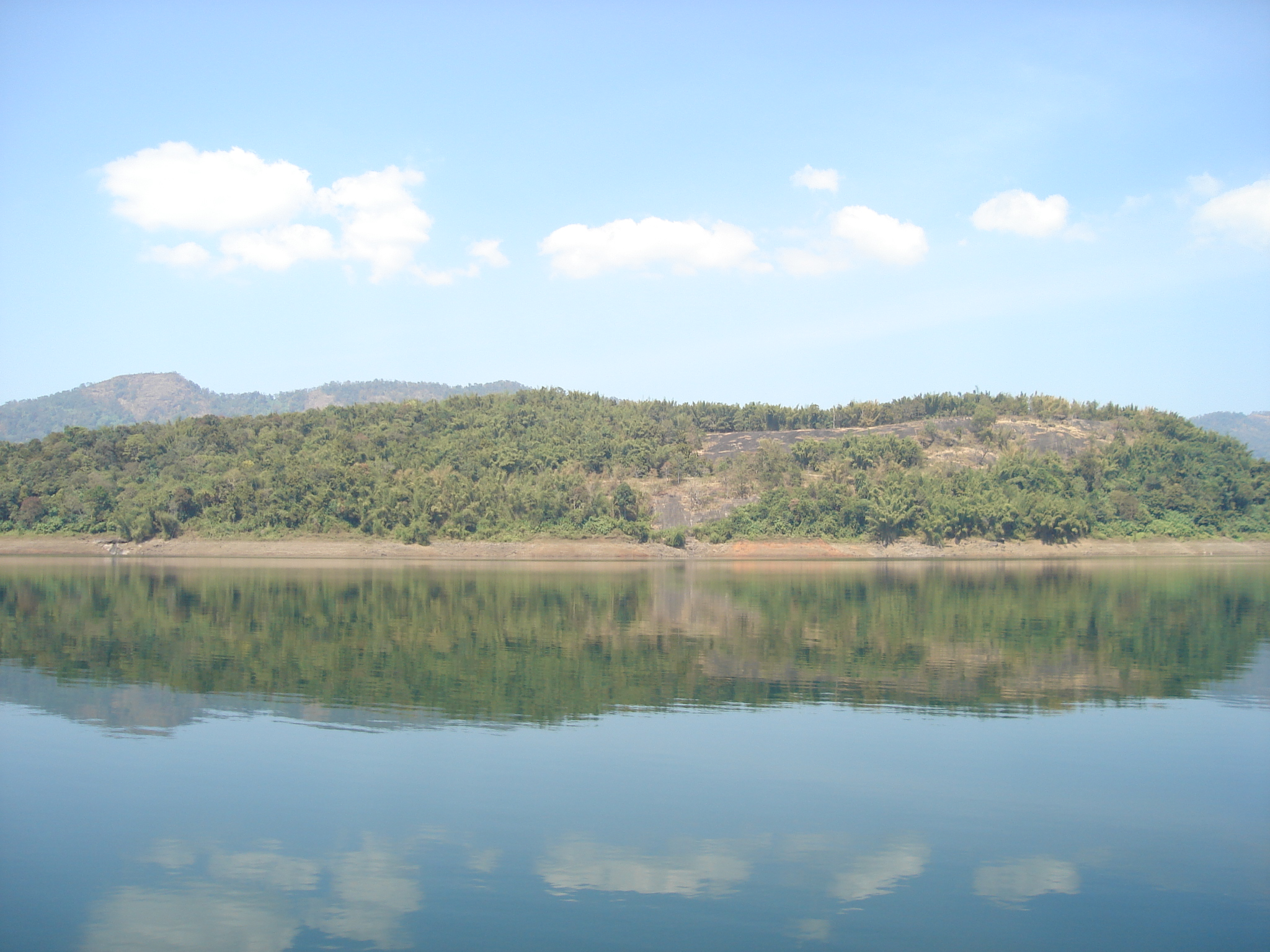 Idamalayar Reservoir